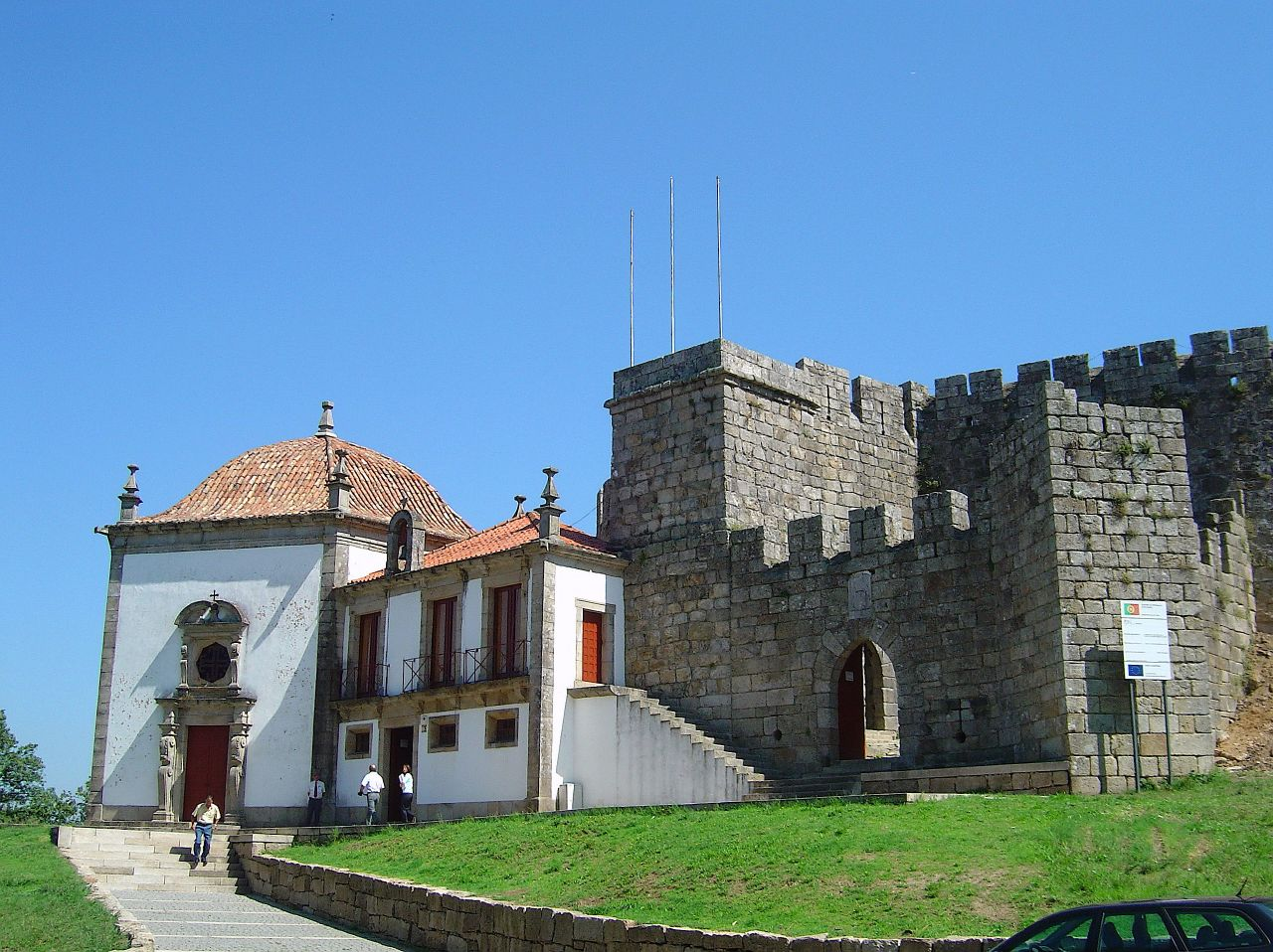 See where this picture was taken. [?]